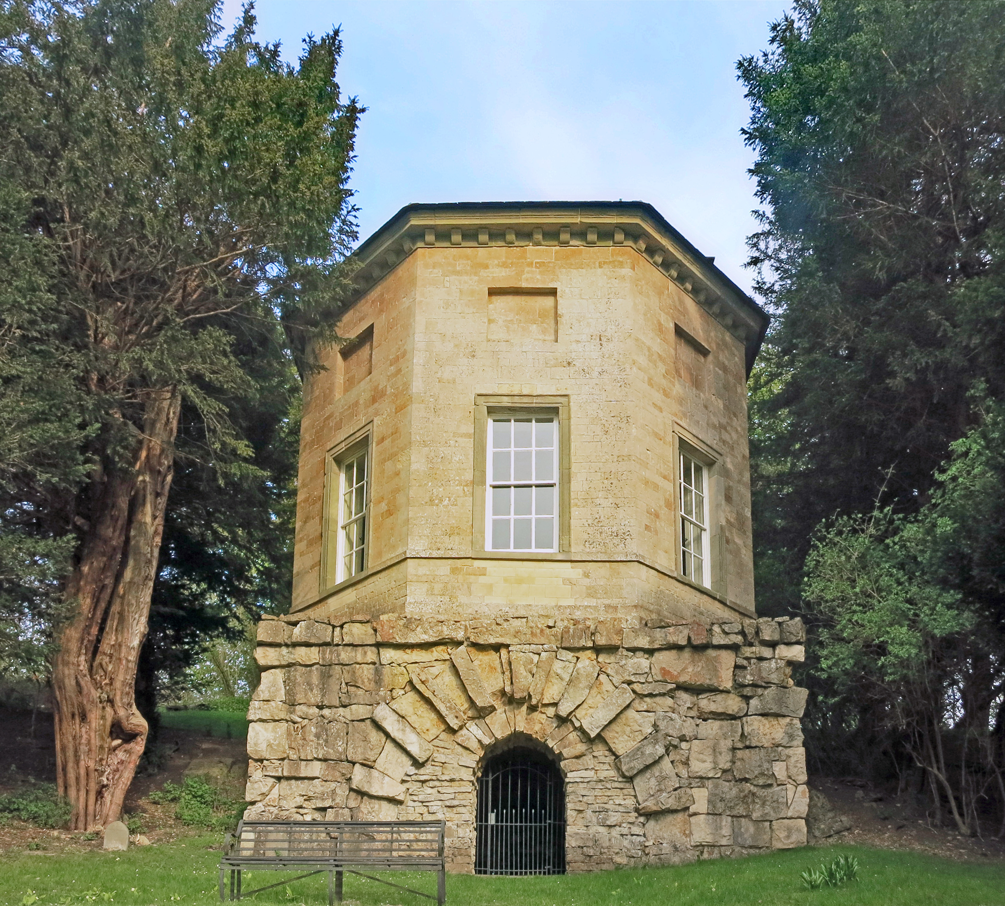 The Bath House This is now a holiday home run by the Landmark Trust who rescued it from dereliction and restored it to its original opulent 18th century style. Designed around 1748 by gentleman architect Sanderson Miller, who later designed Warwick Town Hall, it was built for his friend Sir Charles Mordaunt of nearby Walton Hall. The lower door leads to a grotto where a natural spring has been turned into a cold plunge pool. Upstairs is a splendidly decorated living room.